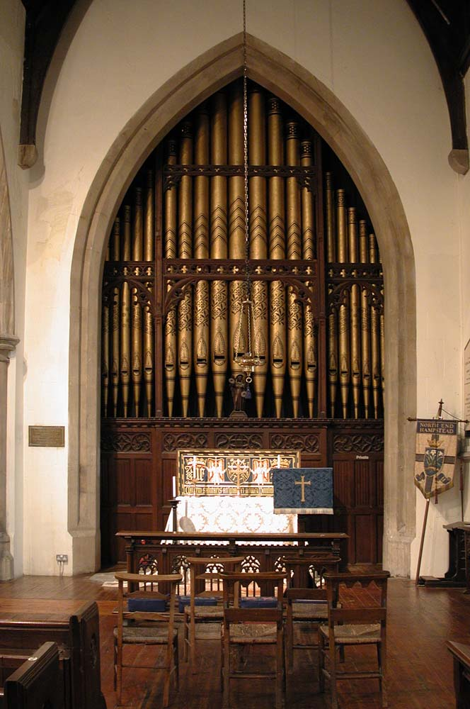 Christ Church, Hampstead Square, London NW3 - Organ, CTYPE html PUBLIC "-//W3C//DTD XHTML 1.0 Strict//EN" " Christ Church, Hampstead Square, London NW3 - Organ:: OS grid TQ2686 :: Geograph Britain and Ireland - photograph every grid square! Geograph - photograph every grid square TQ2686 : Christ Church, Hampstead Square, London NW3 - Organ near to Hampstead, Camden, Great Britain.